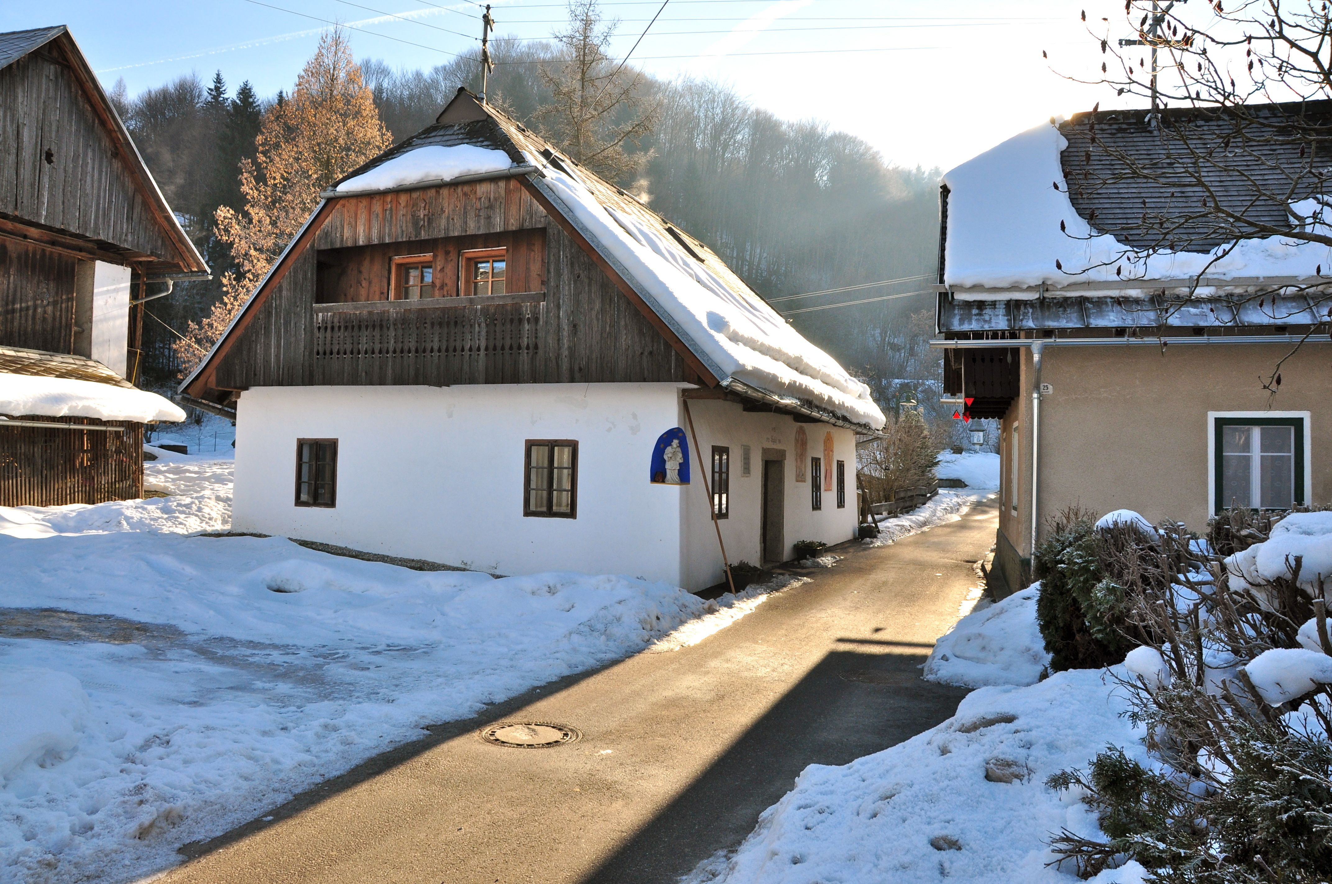 Birthplace of Andrej Einspieler in Suetschach #23, municipality Feistritz im Rosental, district Klagenfurt Land, Carinthia, Austria